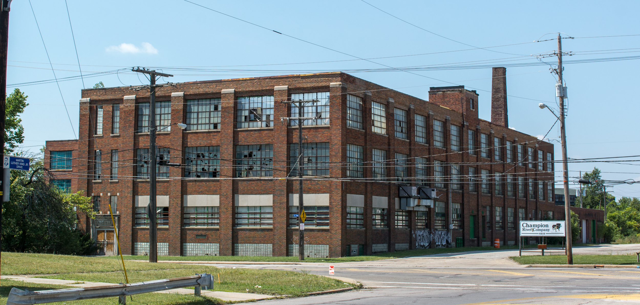 Champion Rivet Company factor at 4010 Martin Luther King Jr. Drive in the Union-Miles Park neighborhood in Cleveland, Ohio, in the United States.